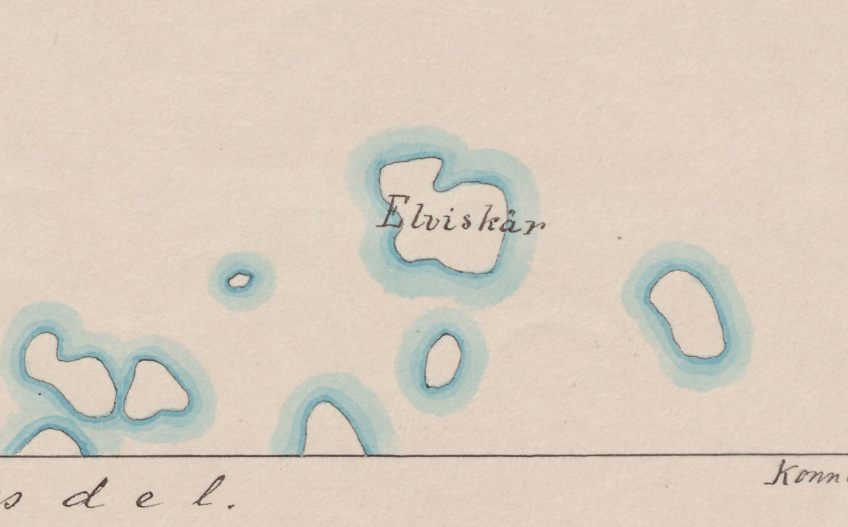 Excerpt from old map of fisheries borders